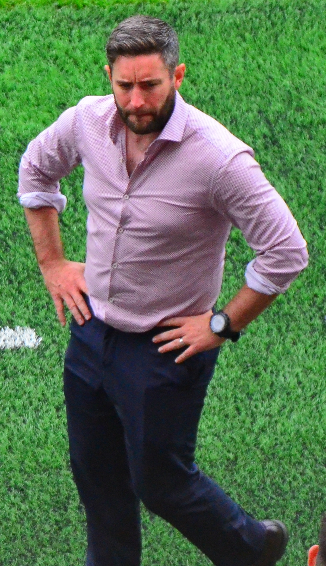 Lee Johnson managing Bristol City against Aston Villa at Ashton Gate Stadium, Bristol on 27 August 2016